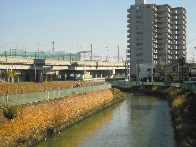 Shōbu River. Toda, Saitama prefecture, Japan.